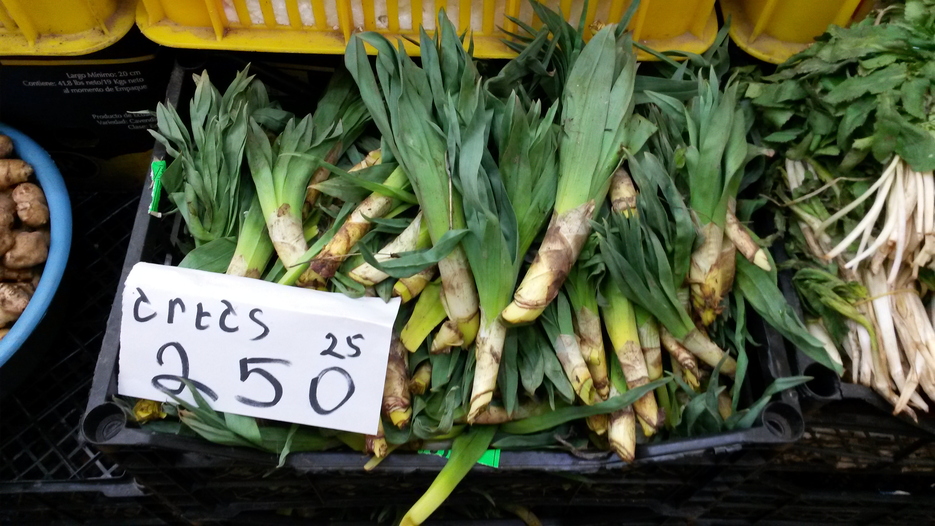 eresmus leaves for consumption in Yerevan, Armenia